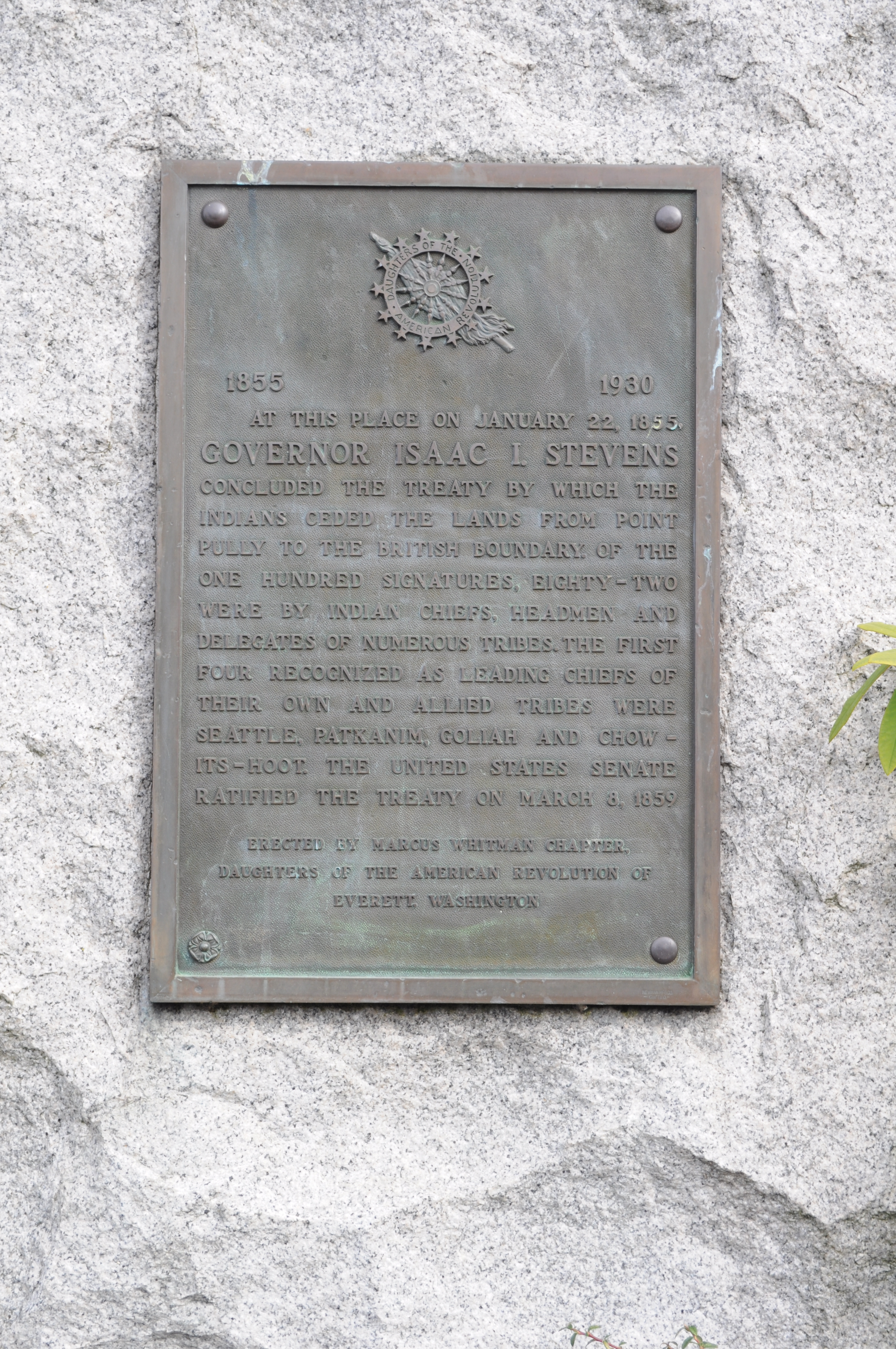 Plaque marking the location of the signing of the Treaty of Point Elliott, Lincoln Ave. and 3rd St., Mukilteo, Washington. This monument is listed on the National Register of Historic Places.